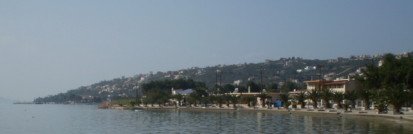 Theologos village